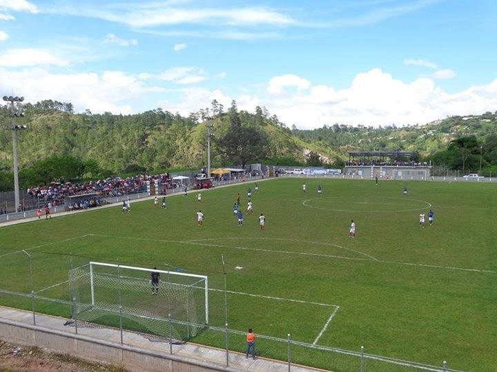 Stadium in Lepaera, Lempira, Honduras.